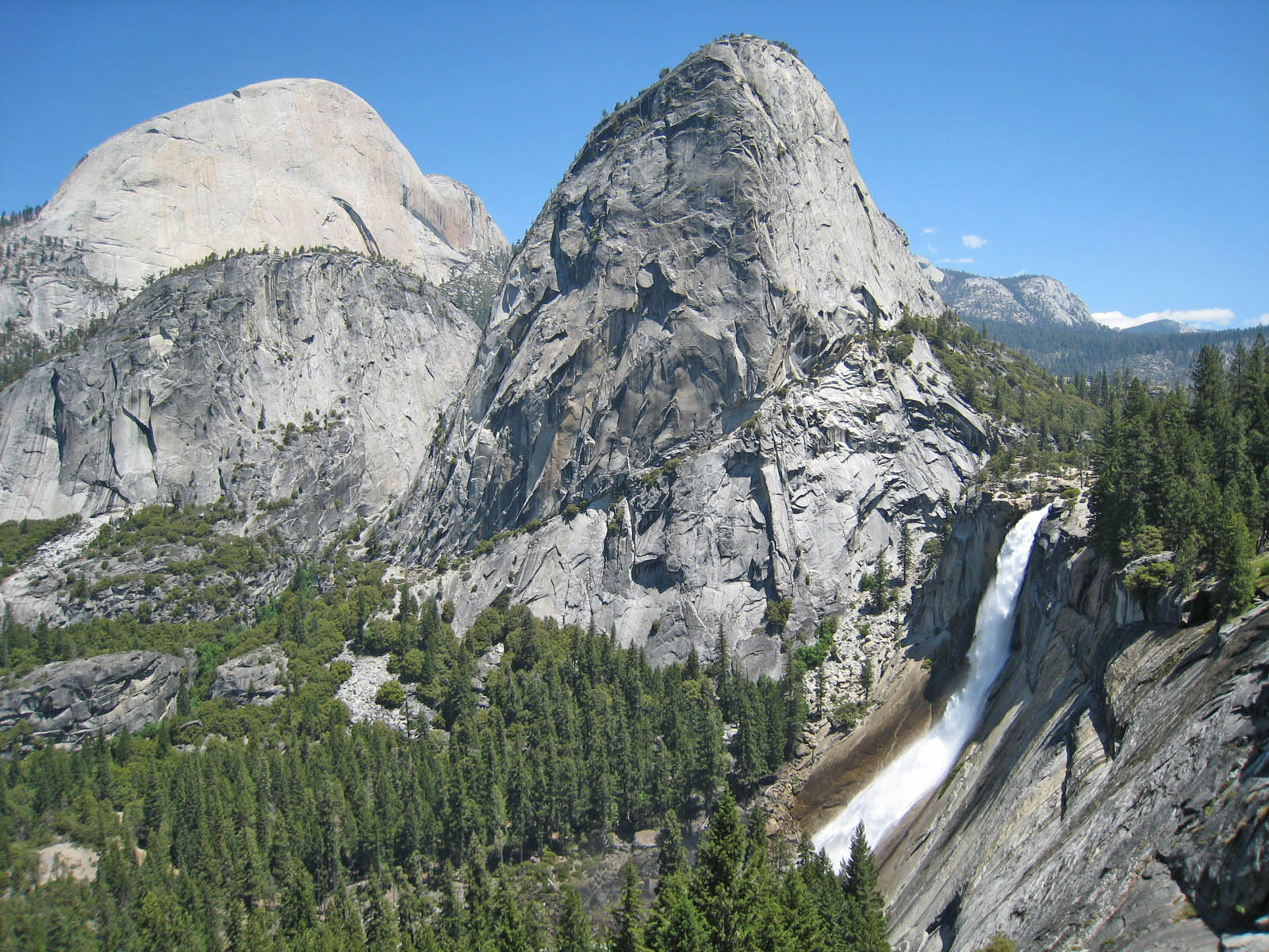 Nevada Falls with Liberty Cap and the back of Half Dome (with Mt Broderick below). View north from Panorama Cliff trail. Little Yosemite Valley is above Nevada Falls on the right.